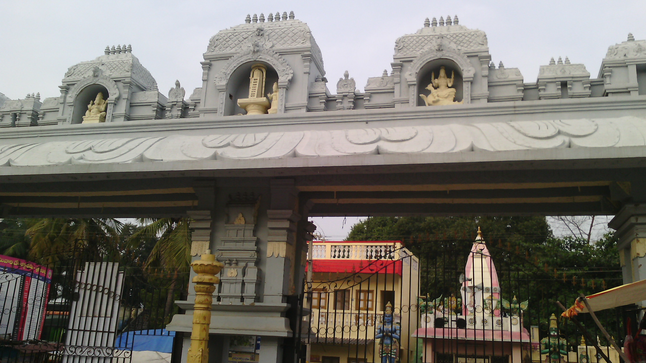 Srikalahasti Temple, Srikalahasti, A.P